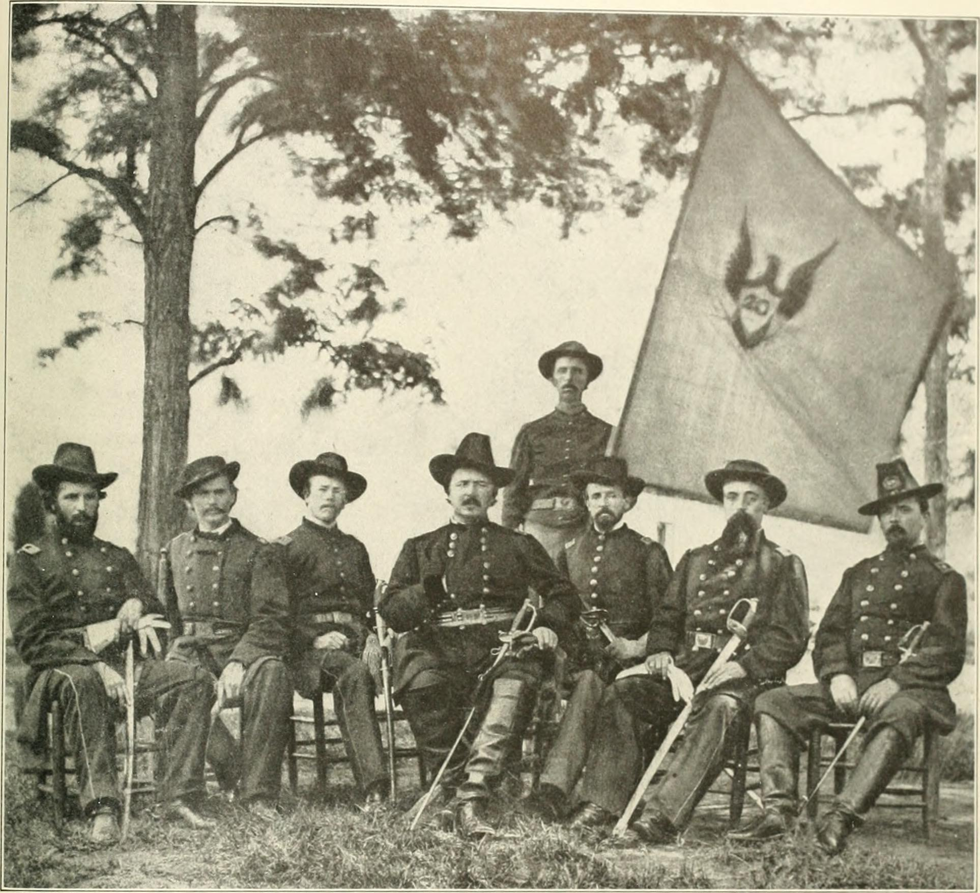 Title: The photographic history of the Civil War : thousands of scenes photographed 1861-65, with text by many special authorities Year: 1911 (1910s) Authors: Miller, Francis Trevelyan, 1877-1959 Lanier, Robert S. (Robert Sampson), 1880- Subjects: United States -- History Civil War, 1861-1865 Pictorial works United States -- History Civil War, 1861-1865 Publisher: New York : Review of Reviews Co. Text Appearing Before Image: ^ Text Appearing After Image: coPYRniHT, im, HEviEM or ntvicws CO THE LEADER OF THE RIGHT WIXG General Alexander McD. McCook at Cliickaniaufja. Whik Thomas, preceded In- Xe^ley. was pressingforward to )McLemores Cove, McCook advanced the right winj,of tlie army to the soutliward within twentymiles of Lafayette, where Bragg had his headquarters. Crittenden, meanwhile, with the left wing, was advan-cing from Chattanooga on the north. It was the opportunity to .strike one of these widely separated corpsthat Bragg missed. At midnight on September 13th McCook received the order to hurry back and makejunction with Thomas. Then began a race of life and death over fifty-.seven miles of excruciating marching,back across Lookout Mountain and northward through Lookout Valley to Stevens Gap, where he arrivedon the 17th. After a brief rest the right wing marched through half the night to its designated position onthe battle-field, and by the morning of the 18th Ro.secrans army was at last concentrated. General McCook(of a fami